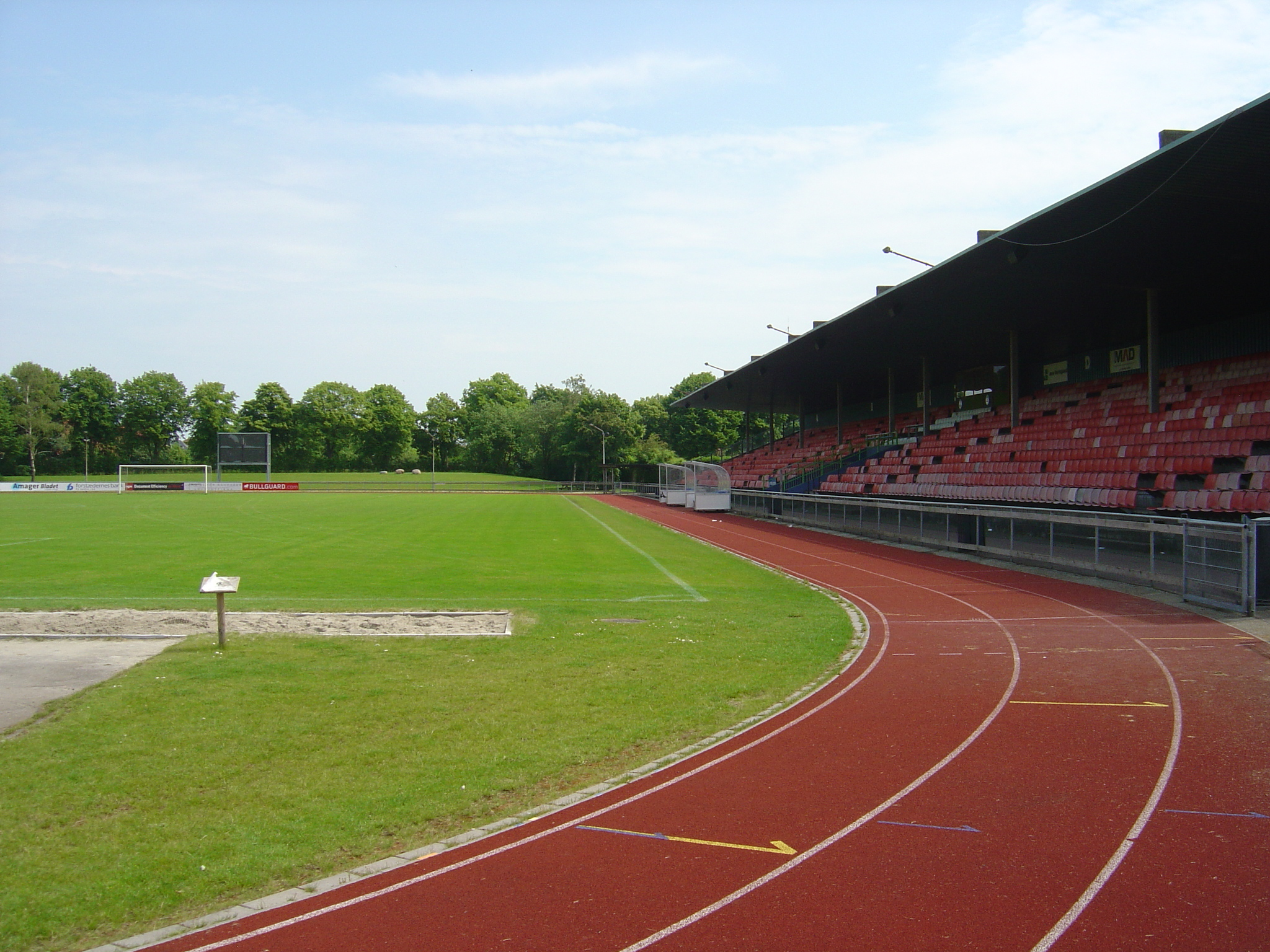 Sundby Idrætspark, Opvisningsbanen is a combined football and athletic stadium on Amager, Copenhagen. Seen from west side in the stadium.